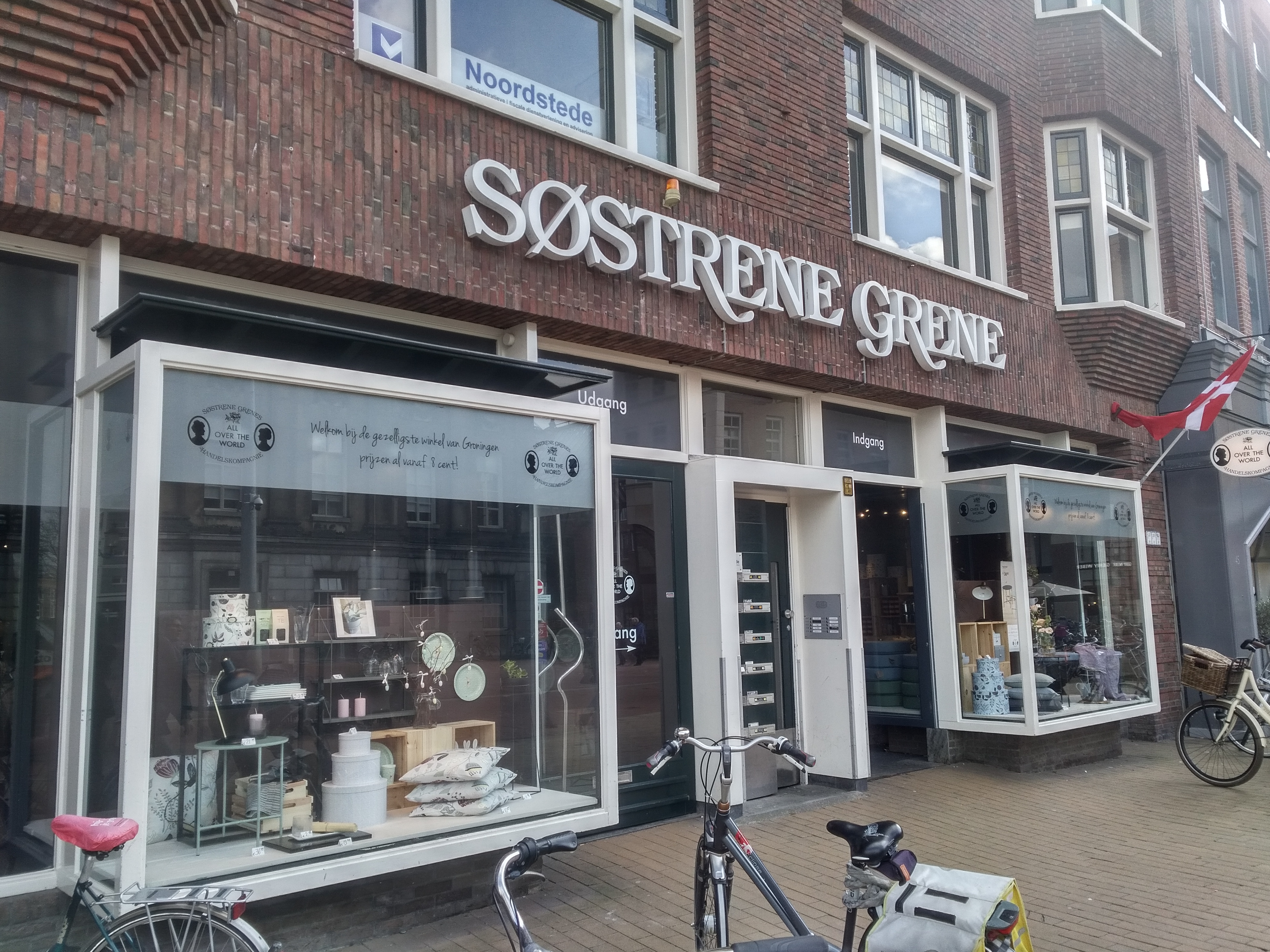 A Danish home decorations shop in the city 🏙 of Groningen.